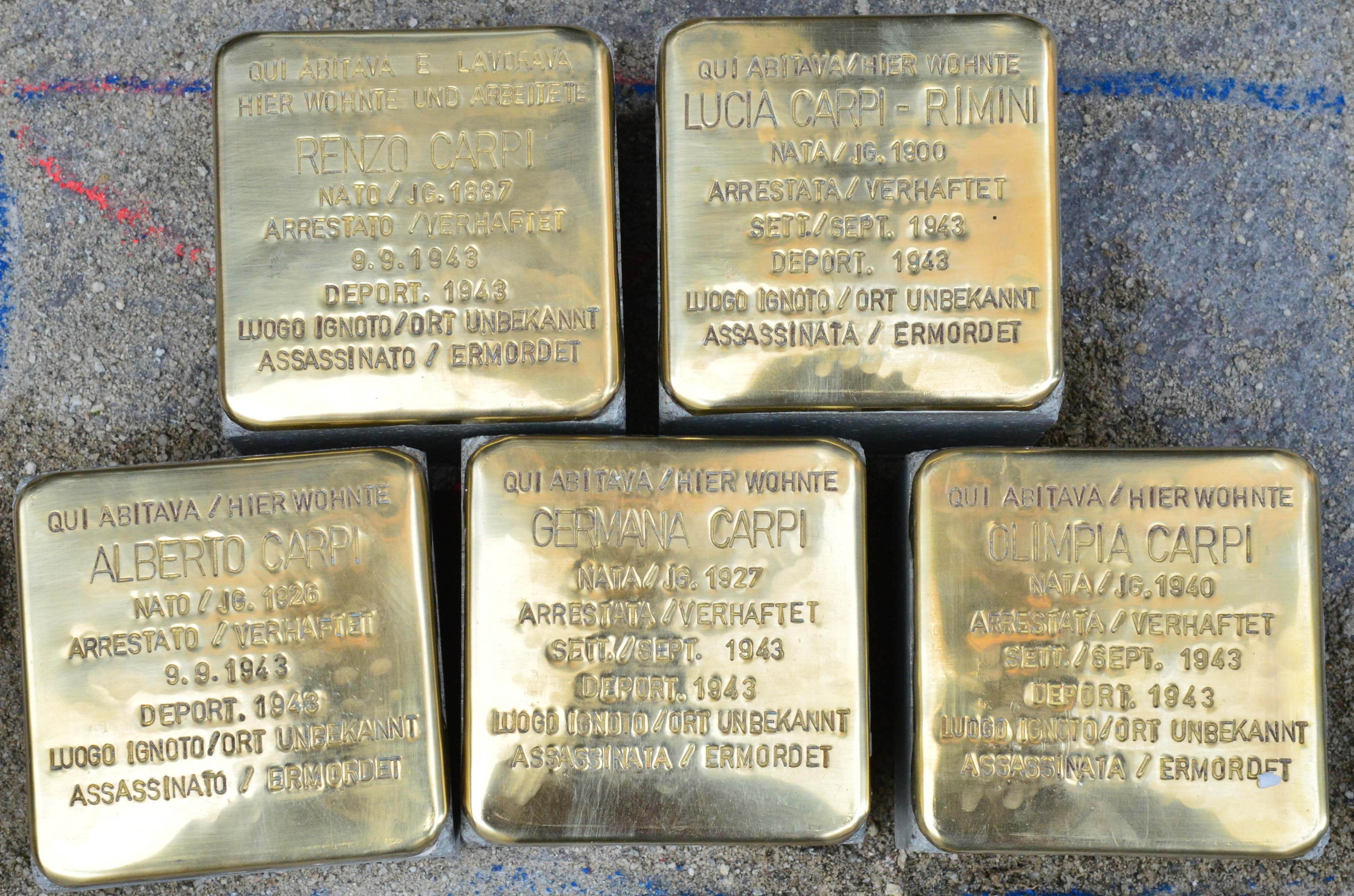 Stumbling Stones for the Carpi Family, placed in Bozen (South Tyrol)